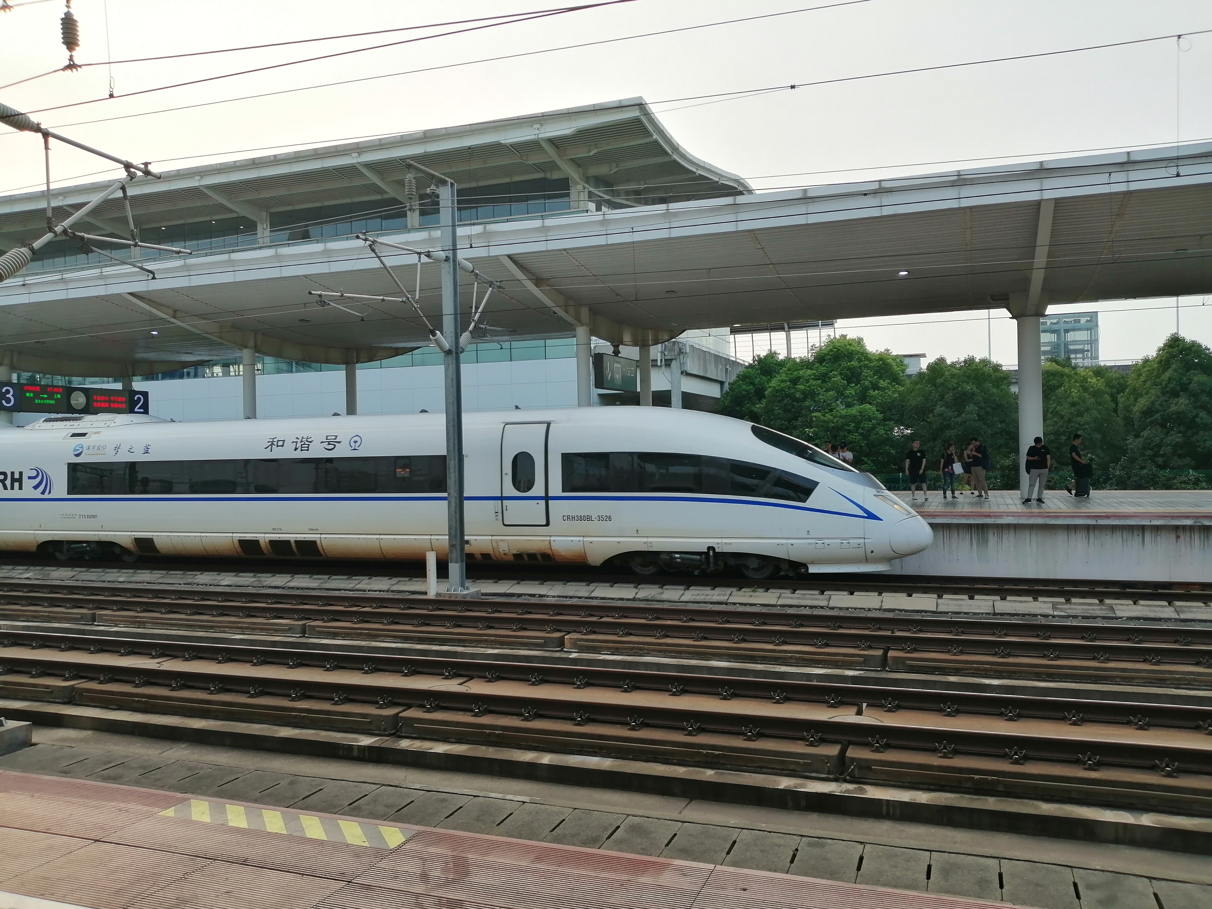 CRH380BL-3526, served as G7063, is stopped at Suzhou Industrial Park Station. The train is sponsored by Yanghe Distillery. 中文（中国大陆）: CRH380BL-3526担当的G7063次列车于苏州园区站停站办客。本列车由洋河酒厂冠名为“梦之蓝号”。